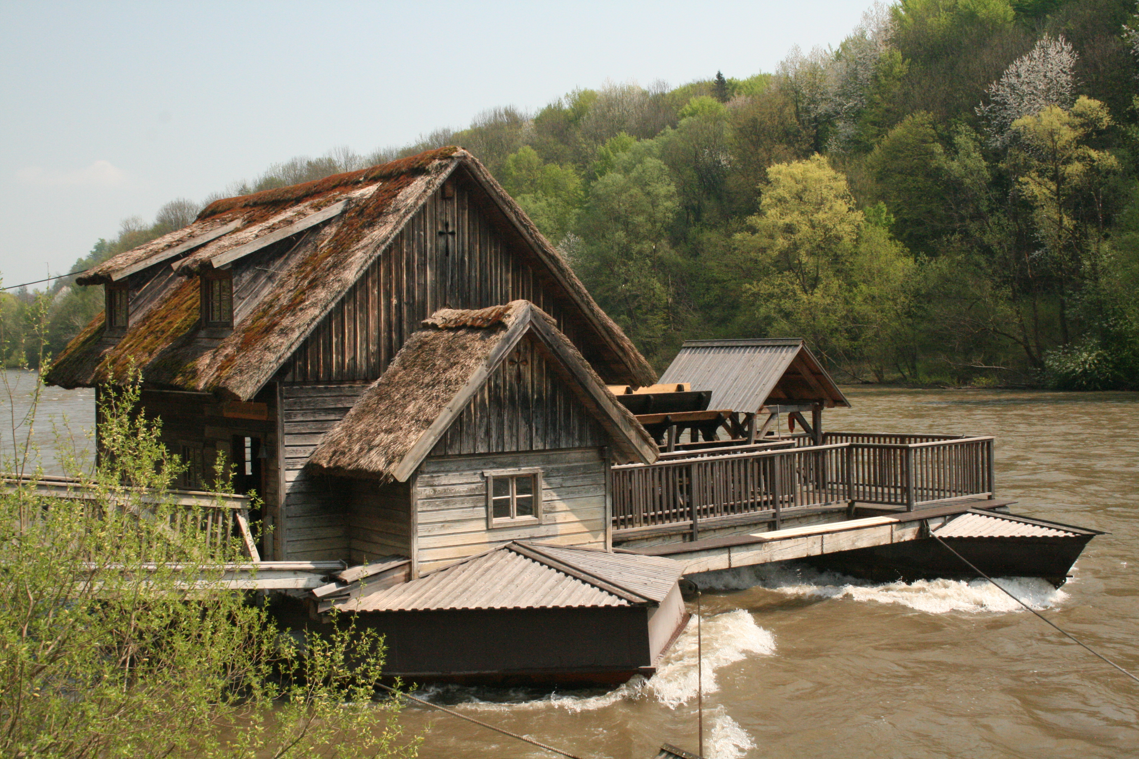 Shipmill on the river Mur in Mureck, Styria, Austria, Europe